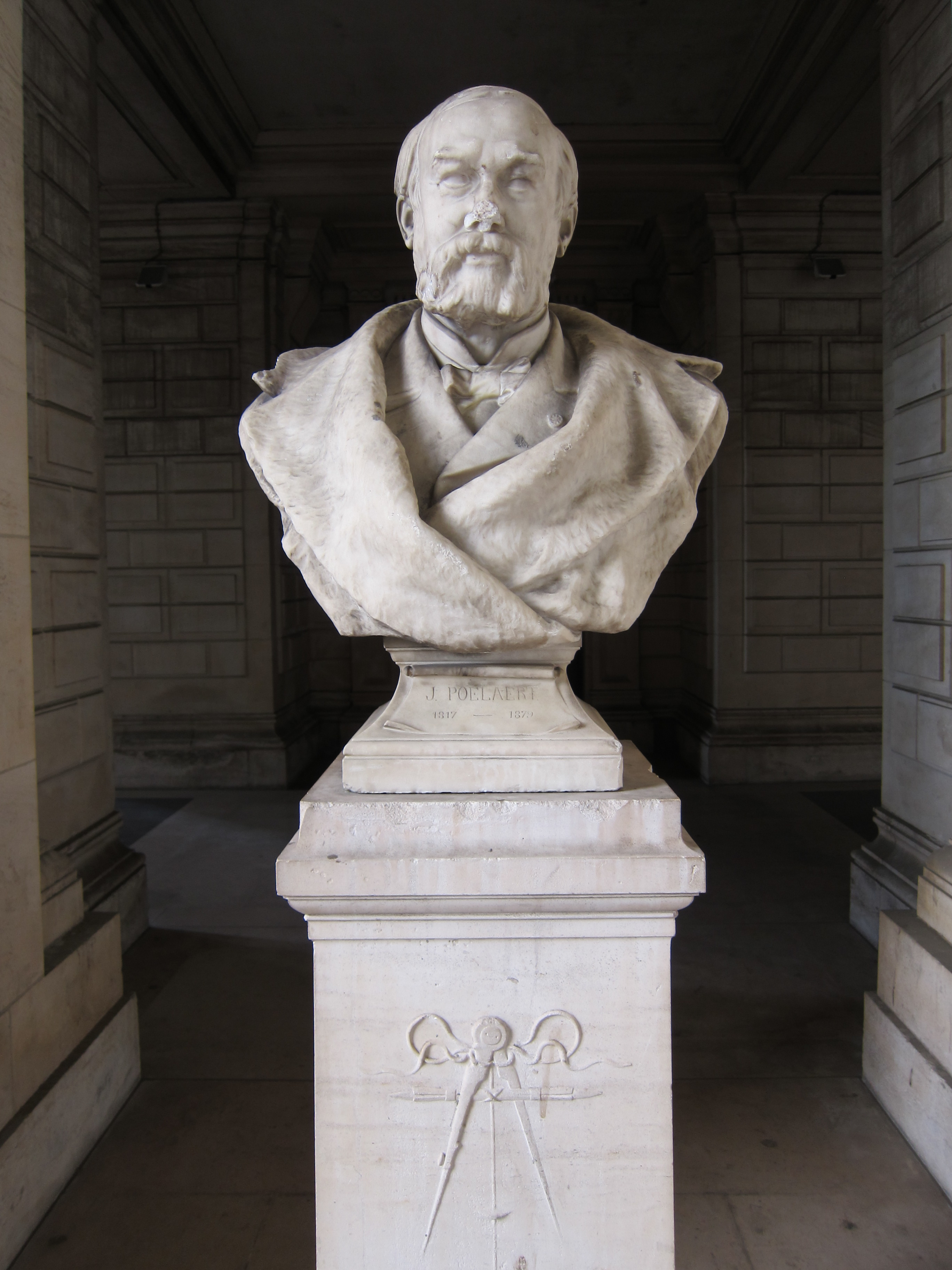 Sculpture of Joseph Poelaert at the Law Courts of Brussels.